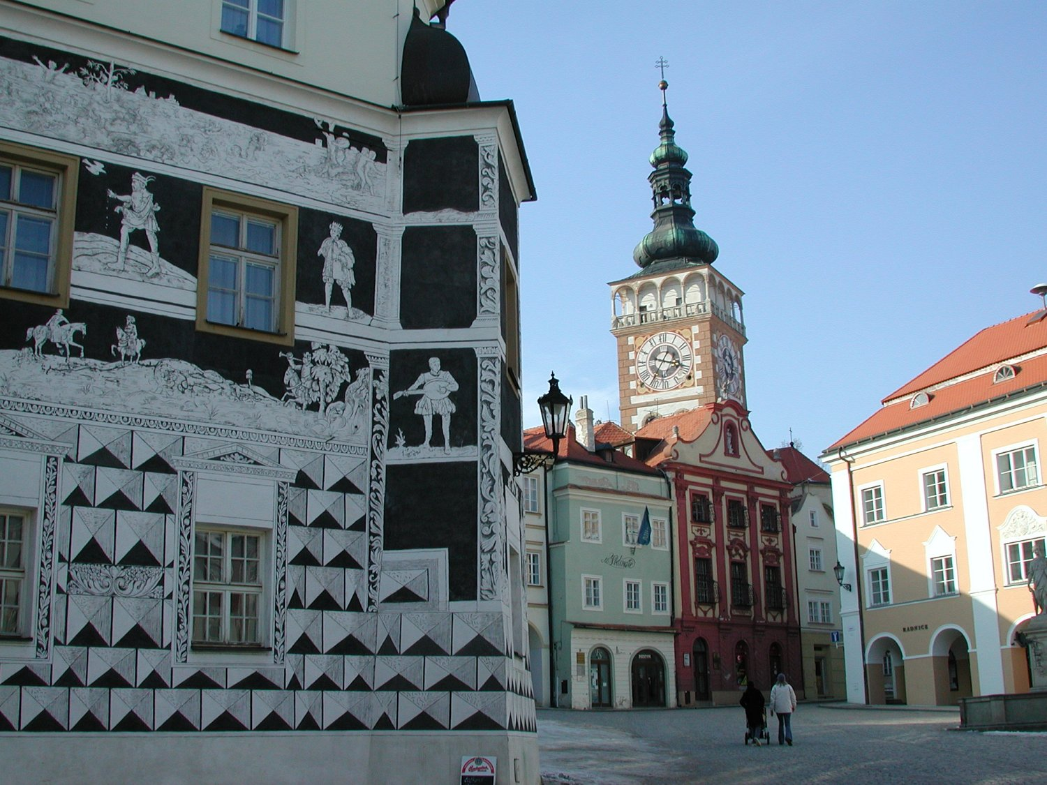 Town square of Mikulov in southern Moravia, Czech Republic